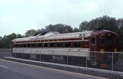 OnTrack train at Carousel Center station in July 1995